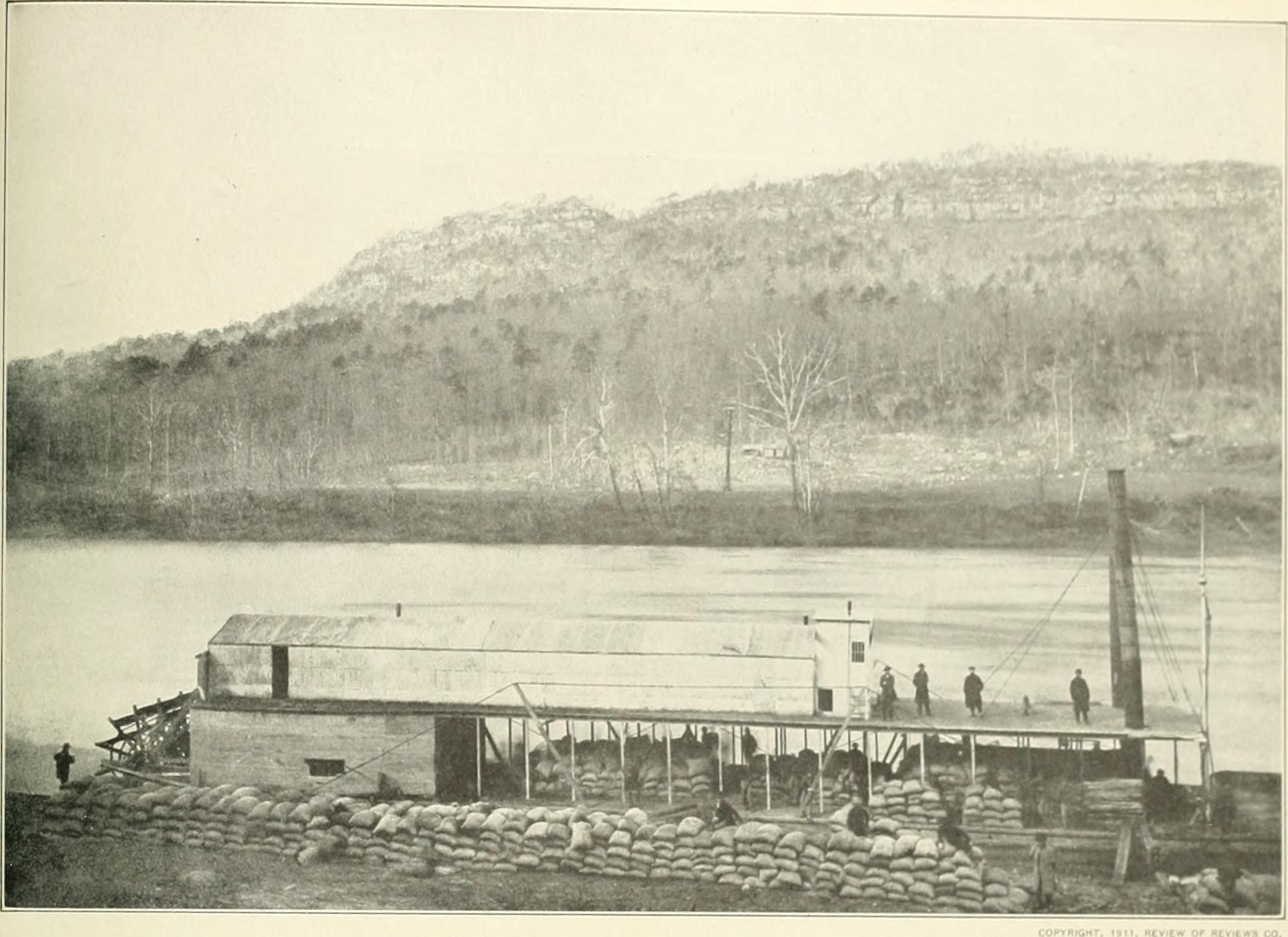 Title: The photographic history of the Civil War : thousands of scenes photographed 1861-65, with text by many special authorities Year: 1911 (1910s) Authors: Miller, Francis Trevelyan, 1877-1959 Lanier, Robert S. (Robert Sampson), 1880- Subjects: United States -- History Civil War, 1861-1865 Pictorial works United States -- History Civil War, 1861-1865 Publisher: New York : Review of Reviews Co. Text Appearing Before Image: ' Text Appearing After Image: OPENING THE CRACKER LINE The U. S. S. Chattanooga was the first steamboat built by the Federals on the upper Tennessee River. Hadthe gunboats on the Ohio been able to come up the Tennessee River nearly three hundred miles, to the assist-ance of Rosecrans, Bragg could never have bottled him up in Chattanooga. Tiul bctwccii Florence andDecatur, Alabama, Muscle Shoals lay in the stream, making the river impassable. While IJraggs jjickcts in-vested the railroad and river, supplies could not be brought uj) from Bridgeport; and besides, with the excep-tion of one small steamboat (the Dunbar), the Federals had no boats on the river. General W. F. Smith,Chief Engineer of the Army of the Cumberland, had established a saw-mill with an old engine at Bridgeportfor the purpose of getting out lumber from logs rafted down the river, with which to construct pontoons.Here Captain Arthur Edwards, Assistant Quartermaster, had been endeavoring since the siege liegan tobuild a steamboat consisting of a fl